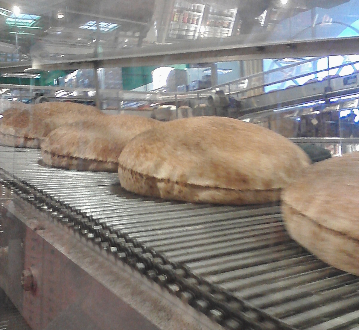 Puffed up, freshly baked pita bread on a conveyor belt, heading to be packaged.